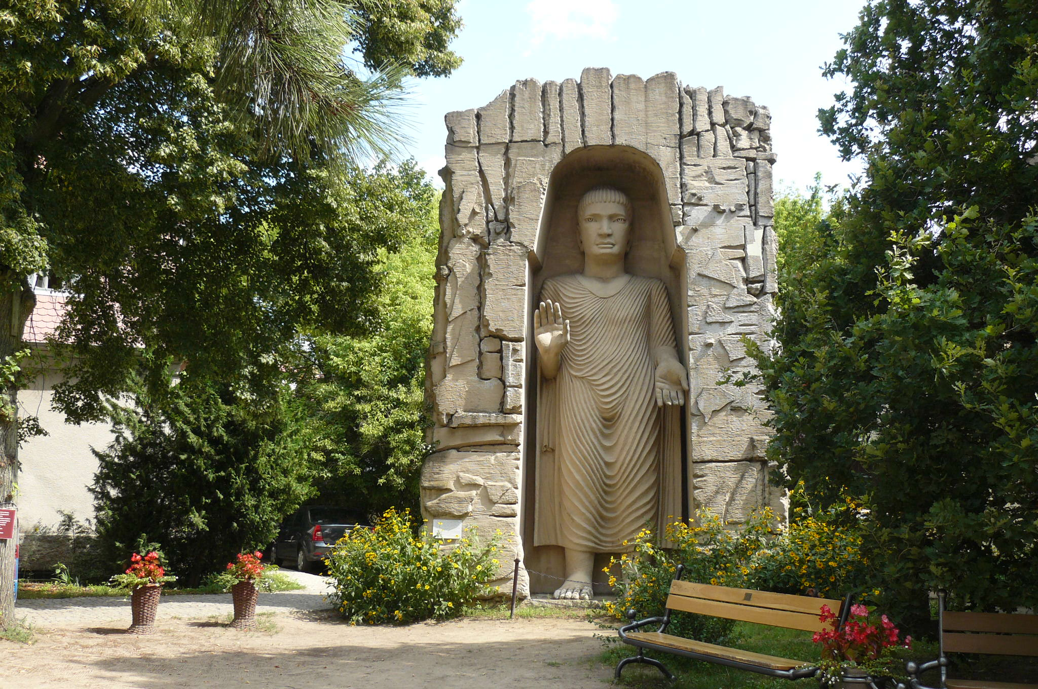 Arkady Fiedler Museum in Puszczykowo.